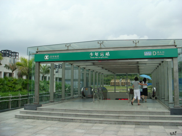 The Exit D of ShaoNianGong Station, the Shenzhen Metro